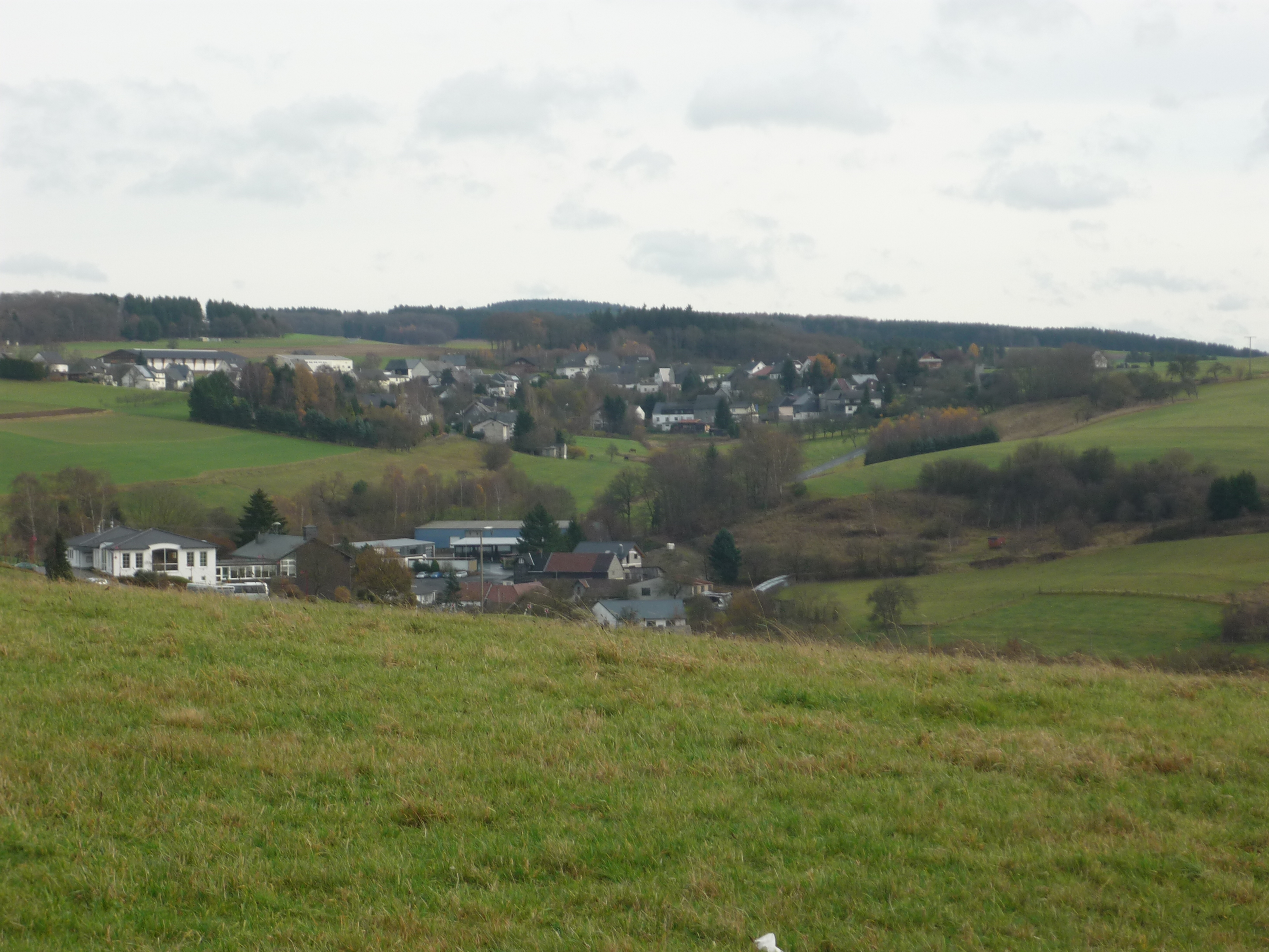 Niedermoersbach Westerwald